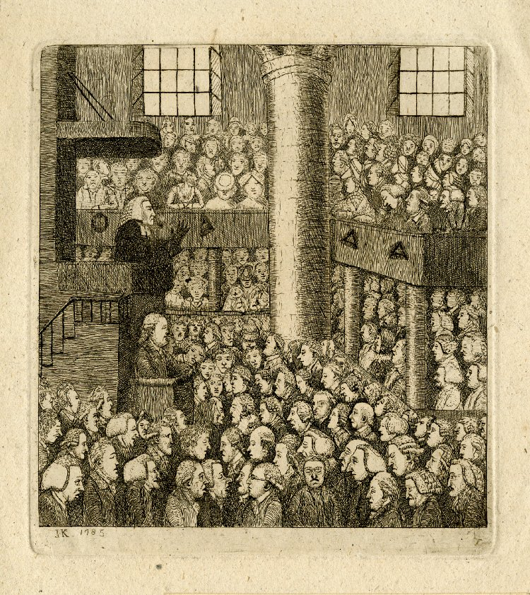 John Kay's 'The Sleepy Congregation'. Dr. Alexander Webster, minister of the Tolbooth Kirk in Edinburgh and Moderator of the Church of Scotland in 1753, was responsible for providing the first reliable estimate of Scotland's population in modern times. Based on returns from parish ministers, mostly for the year 1755, he calculated Scotland's population at 1,265,380. His census did not, however, include most of the country's small Roman Catholic minority, figures for which relied on ministers reporting the number of 'papists' in their parishes. Internal evidence suggests that this was done inconsistently. [Note: The Tolbooth Kirk met in the north-west corner of St. Giles when that building accommodated four separate congregations and should not be confused with the later Victorian building of that name.]